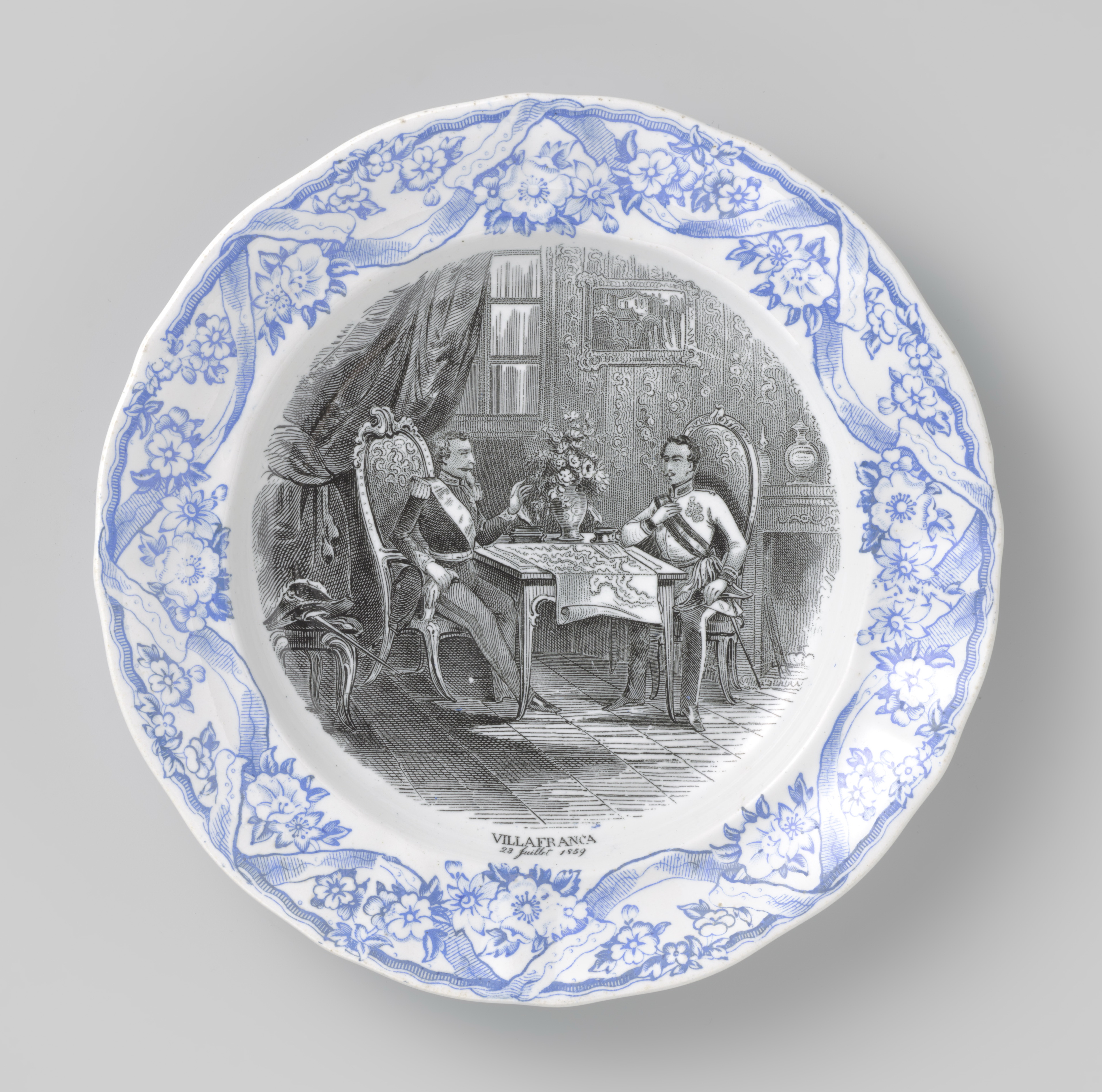 A plate commemorating the Treaty of Villafranca (1859), produced in 1870 by Petrus Regout & Co in Maastricht, Netherlands. Collection: Rijksmuseum Amsterdam, ref. nr. BK-1983-220.